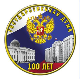 Emblem commemorating 100 years of State Duma in Russia.